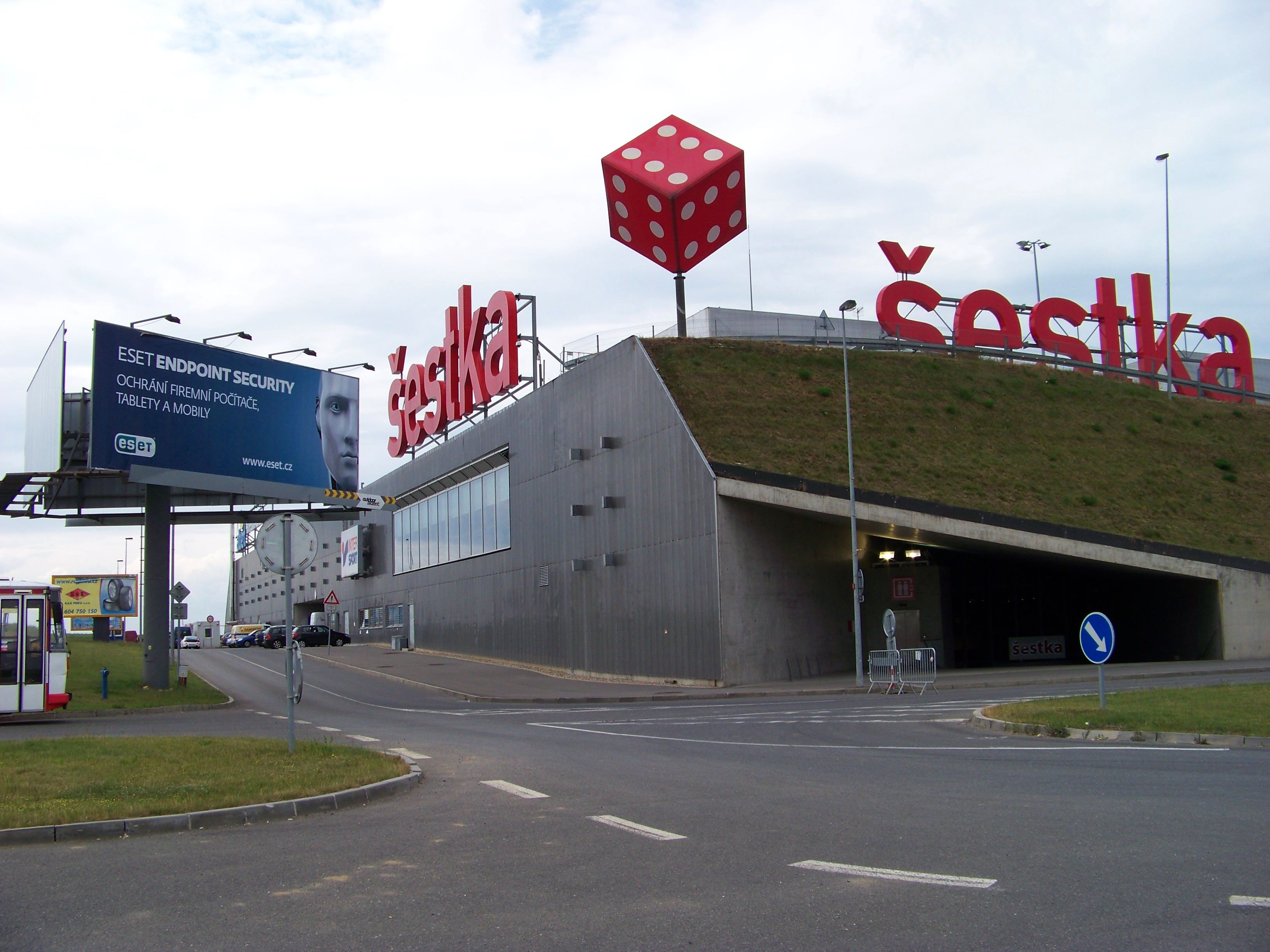 Prague-Ruzyně, the Czech Republic. Fajtlova street, Šestka shopping centre.